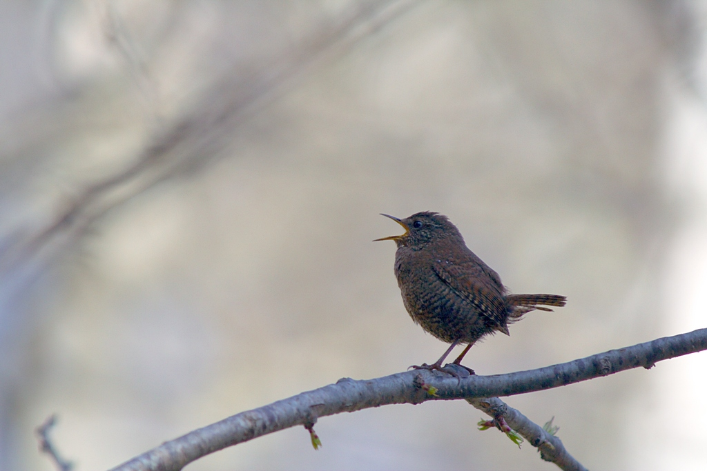 Troglodytes troglodytes fumigatus, Japan.